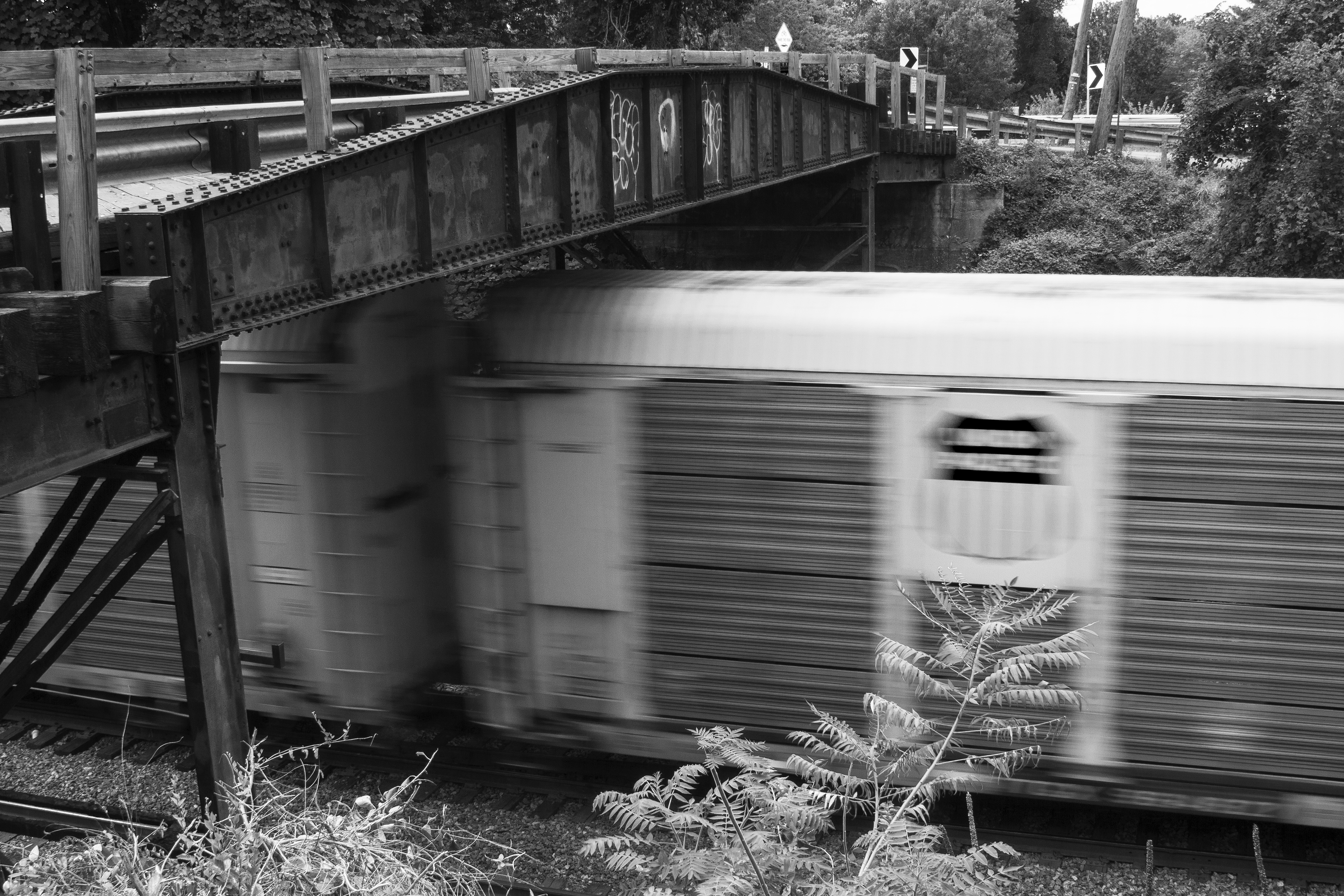 Talbot Avenue bridge, Old, one-lane overpasses like this one used to be common all over the US. However, given the need for increased capacity and clearances on both the roads and the railroads, recent decades have seen most of these bridges replaced or removed altogether. This bridge was built in 1918 and still carries plenty of vehicle traffic through this residential area of Silver Spring, still known as Woodside in the years that the bridge was first built. It clears modern autoracks with just a bit of room to spare. It's crazy to think that such a peaceful looking scene is just under a mile away from the hustle of Washington DC, although if Metro's purple line project goes forward, this area may be disrupted in a short time.